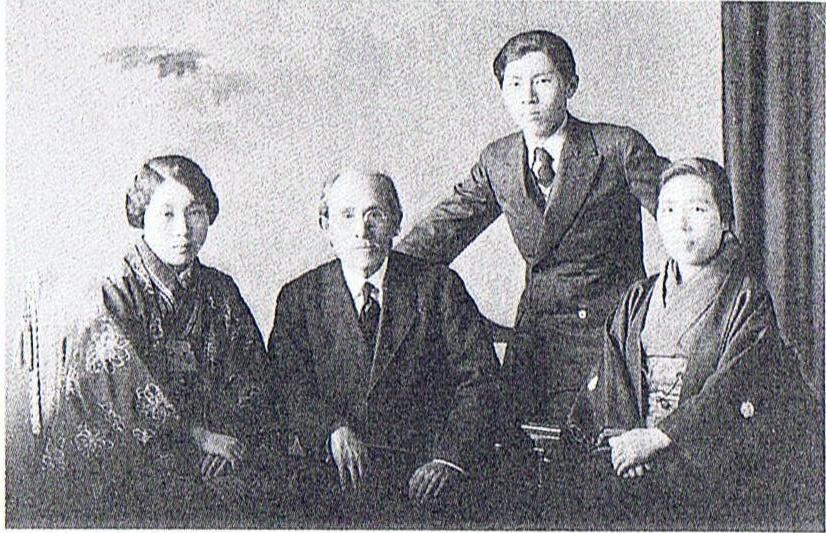 MITANI Tanekiti 1929